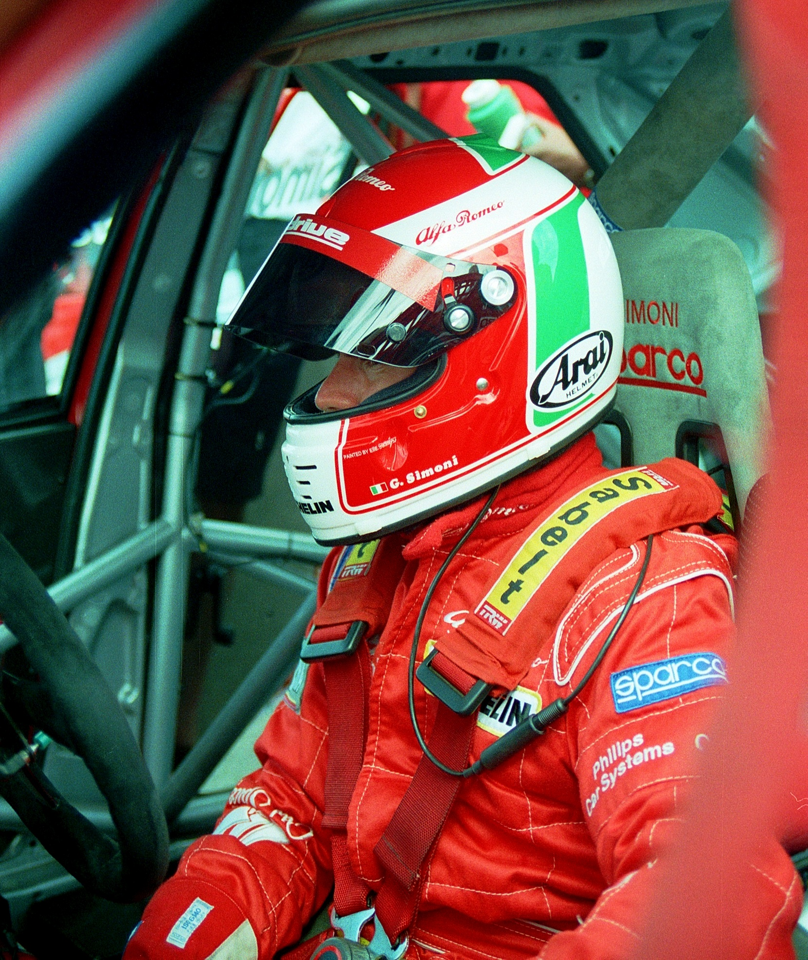 Giampiero Simoni - Alfa Romeo 155 TS in the collecting area at the British GP support round of the BTCC 1995